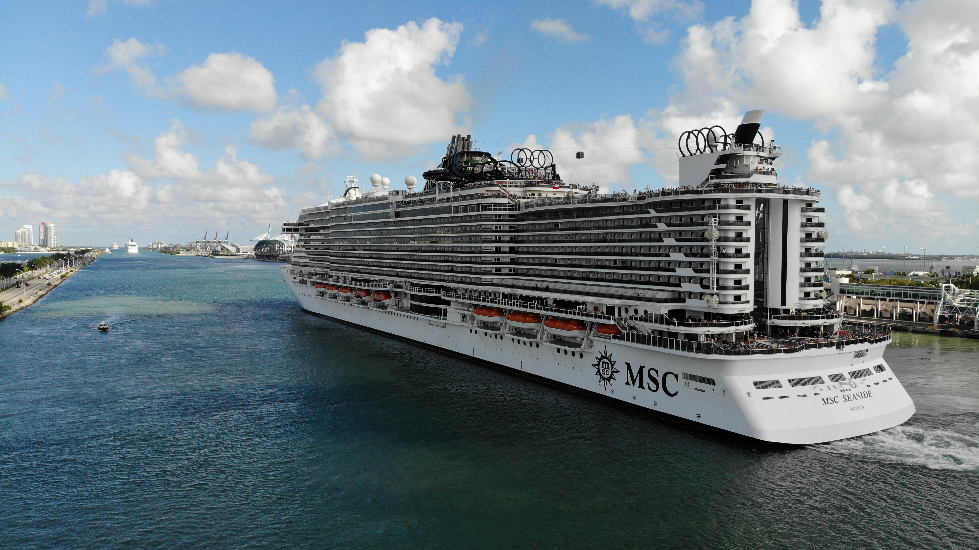 The MSC Seaside cruise ship leaving the Port of Miami.